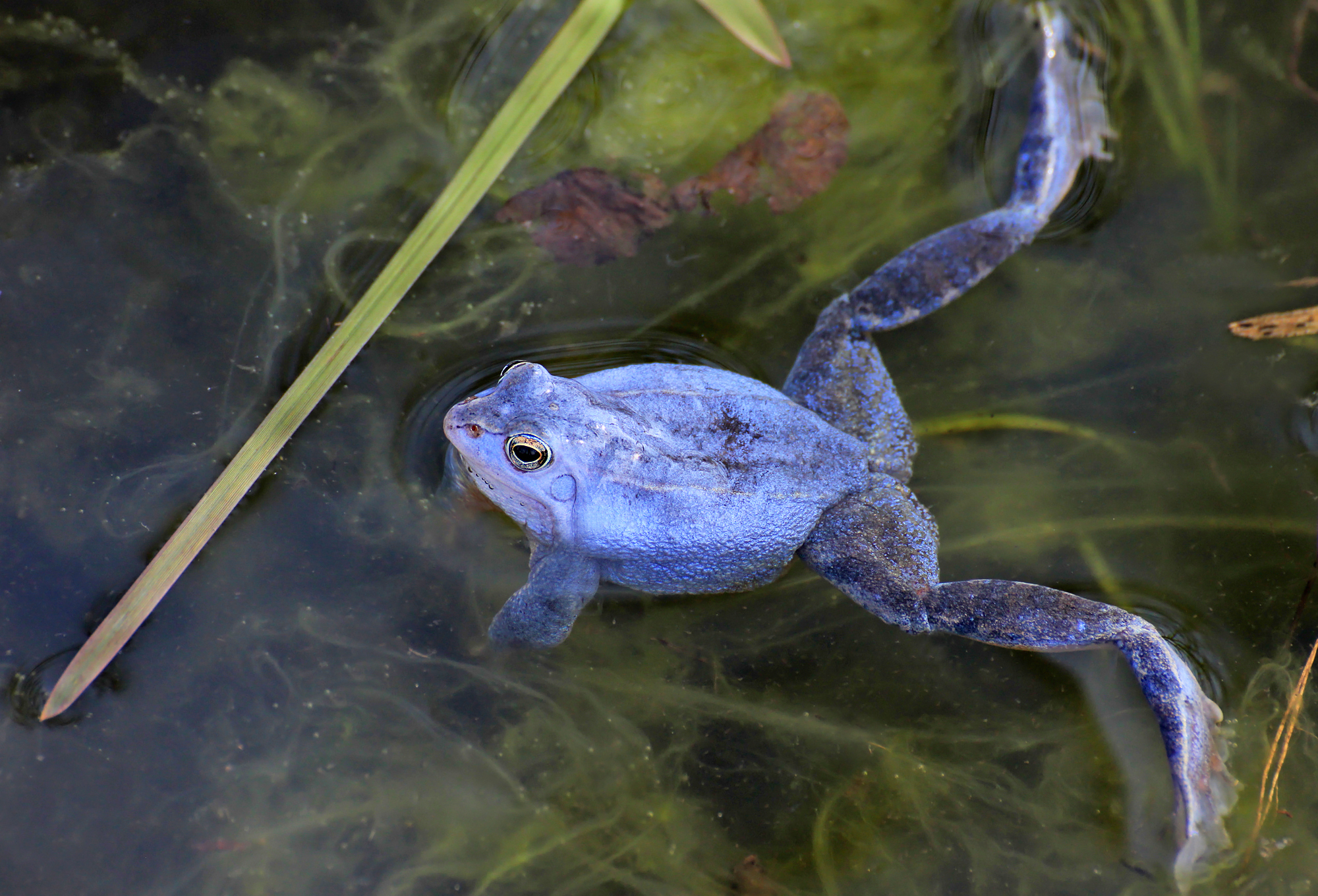 Male specimen of the Moor frog (Rana arvalis), at the climax of the spawning season. For a few days the males of this species appear blue-dyed.